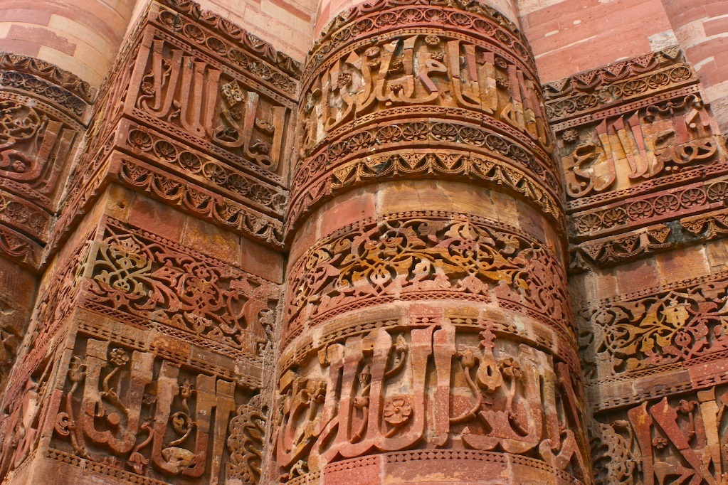 Writing on the Qutub Minar